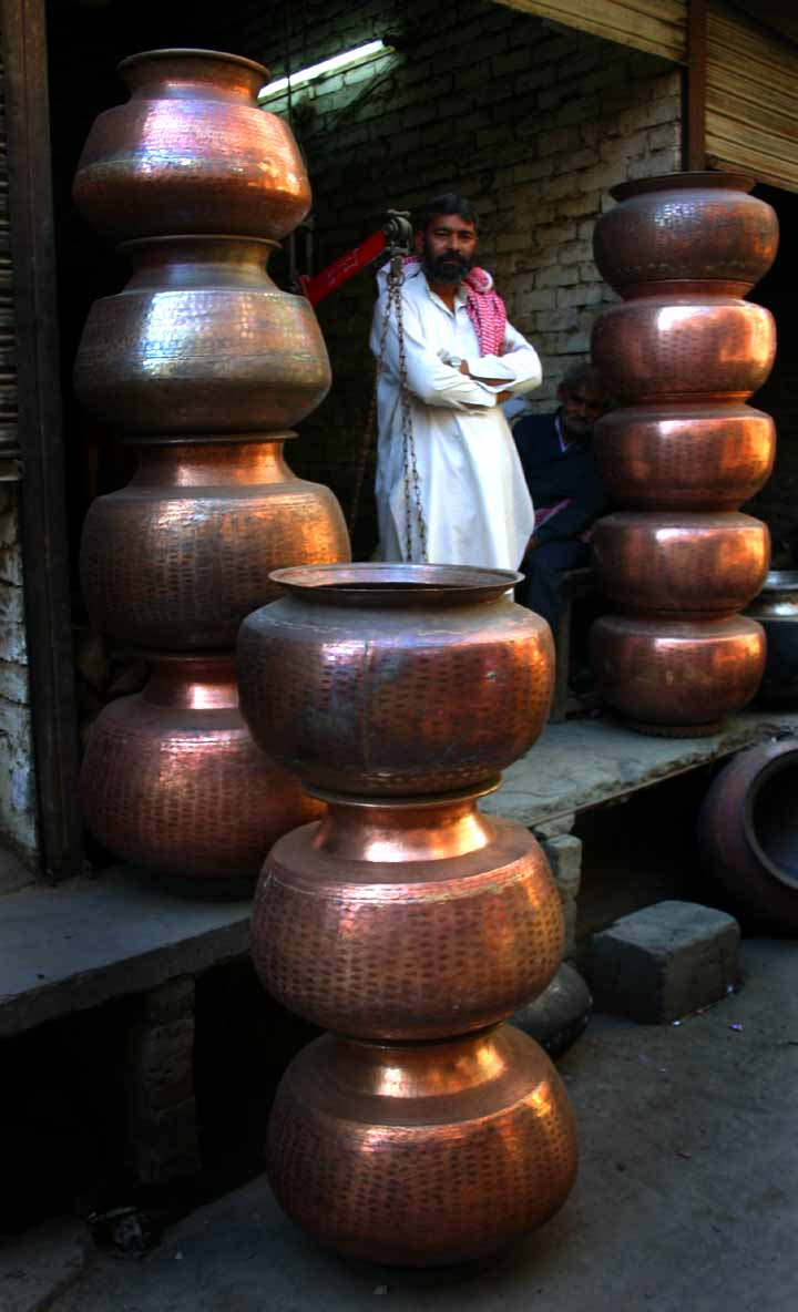 A local copppersmith displays his wares at the central market in Multan, Pakistan. Canon Digital Rebel / 18-55 Canon lens